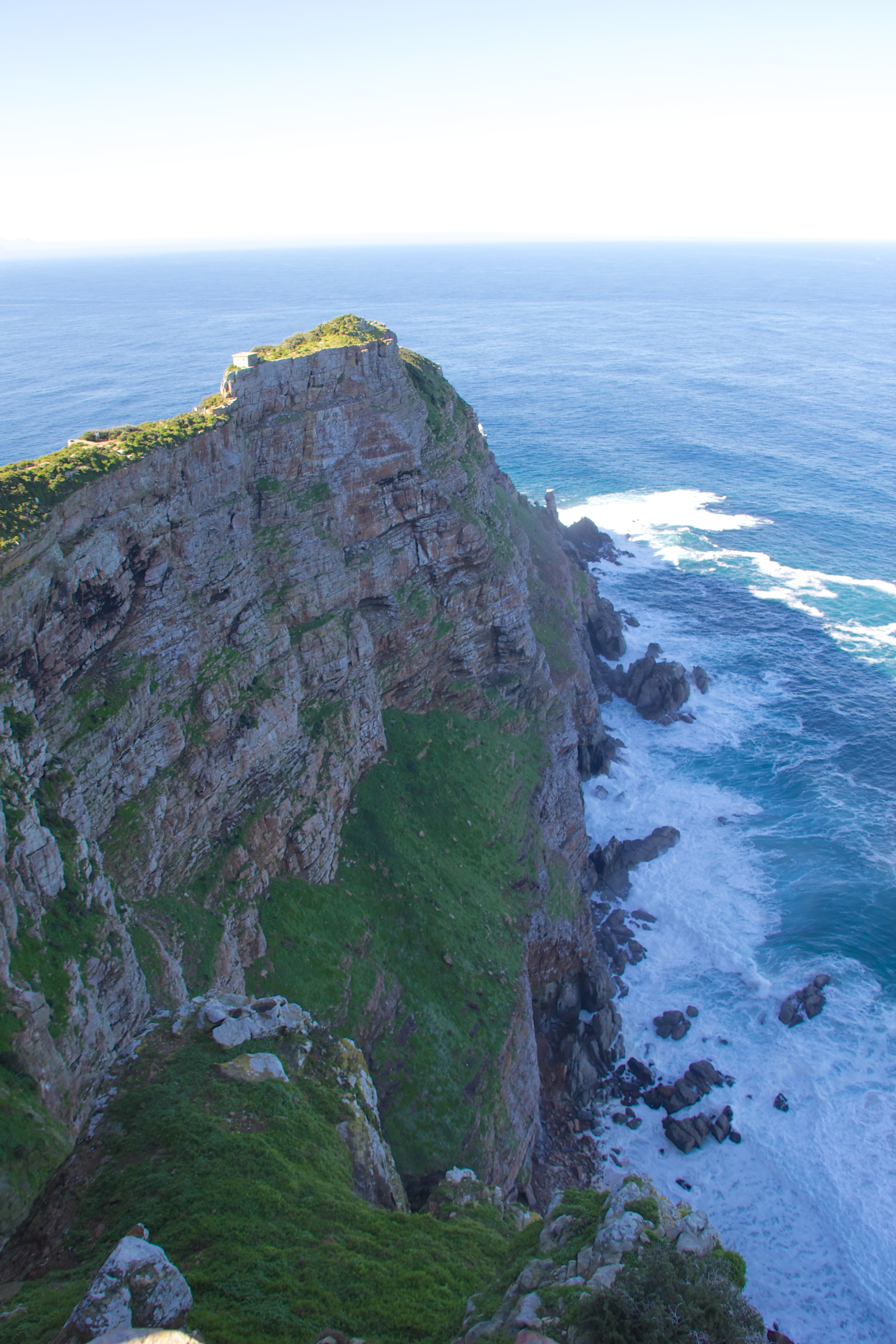 Cape Point, South Africa.